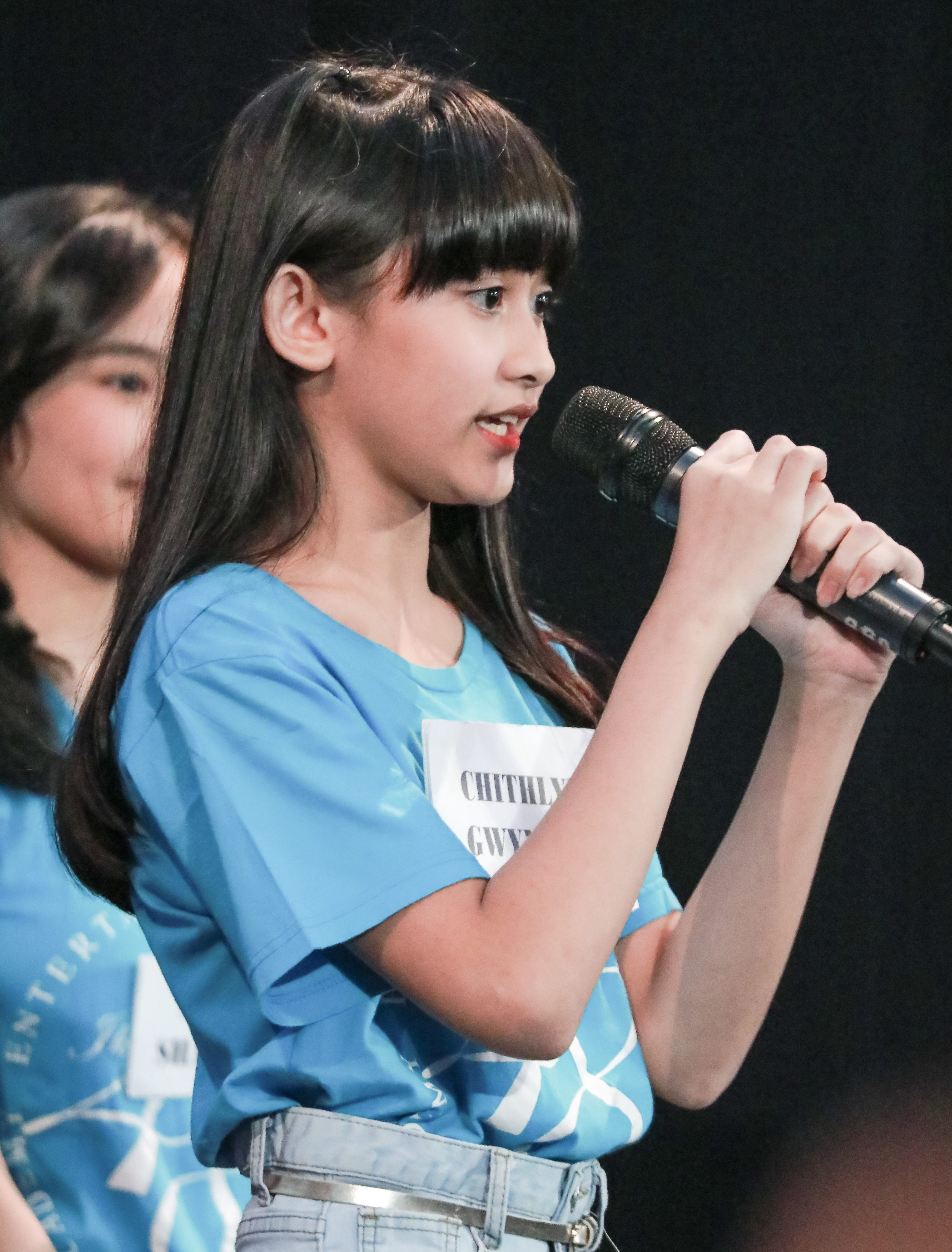 Caithlyn Gwyneth Santoso on 1 December 2019